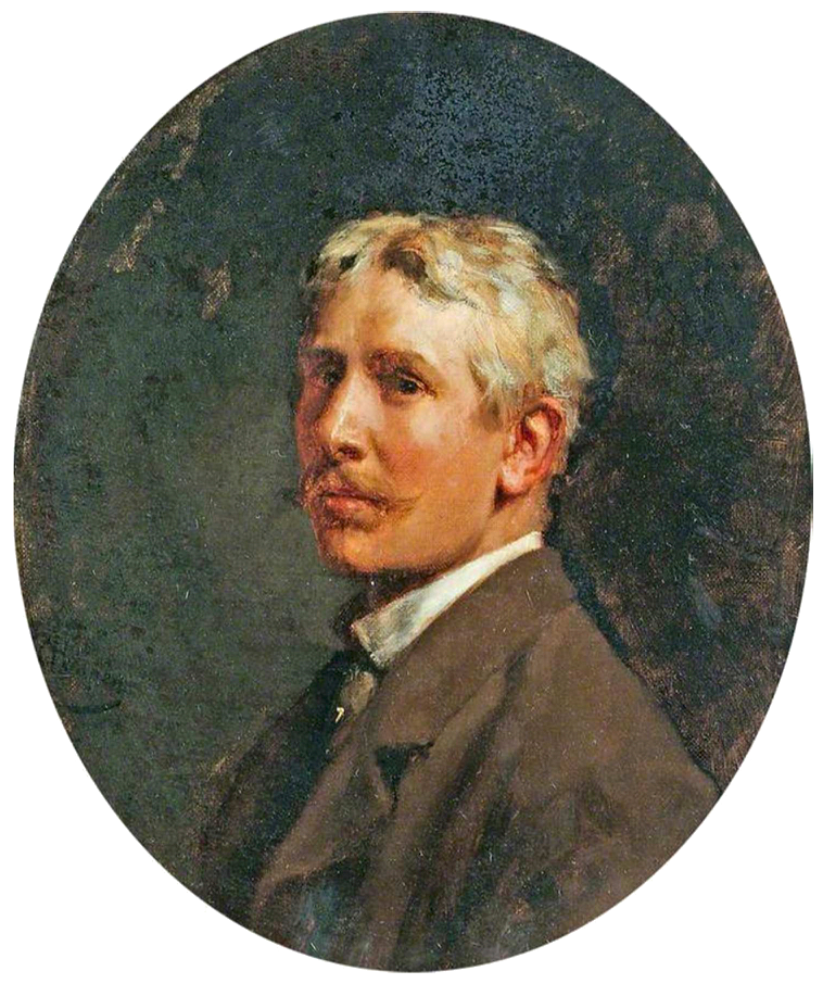 Self-portrait Cecil van Haanen. Oil on canvas; 34.5 x 29.7 cm; Aberdeen Art Gallery